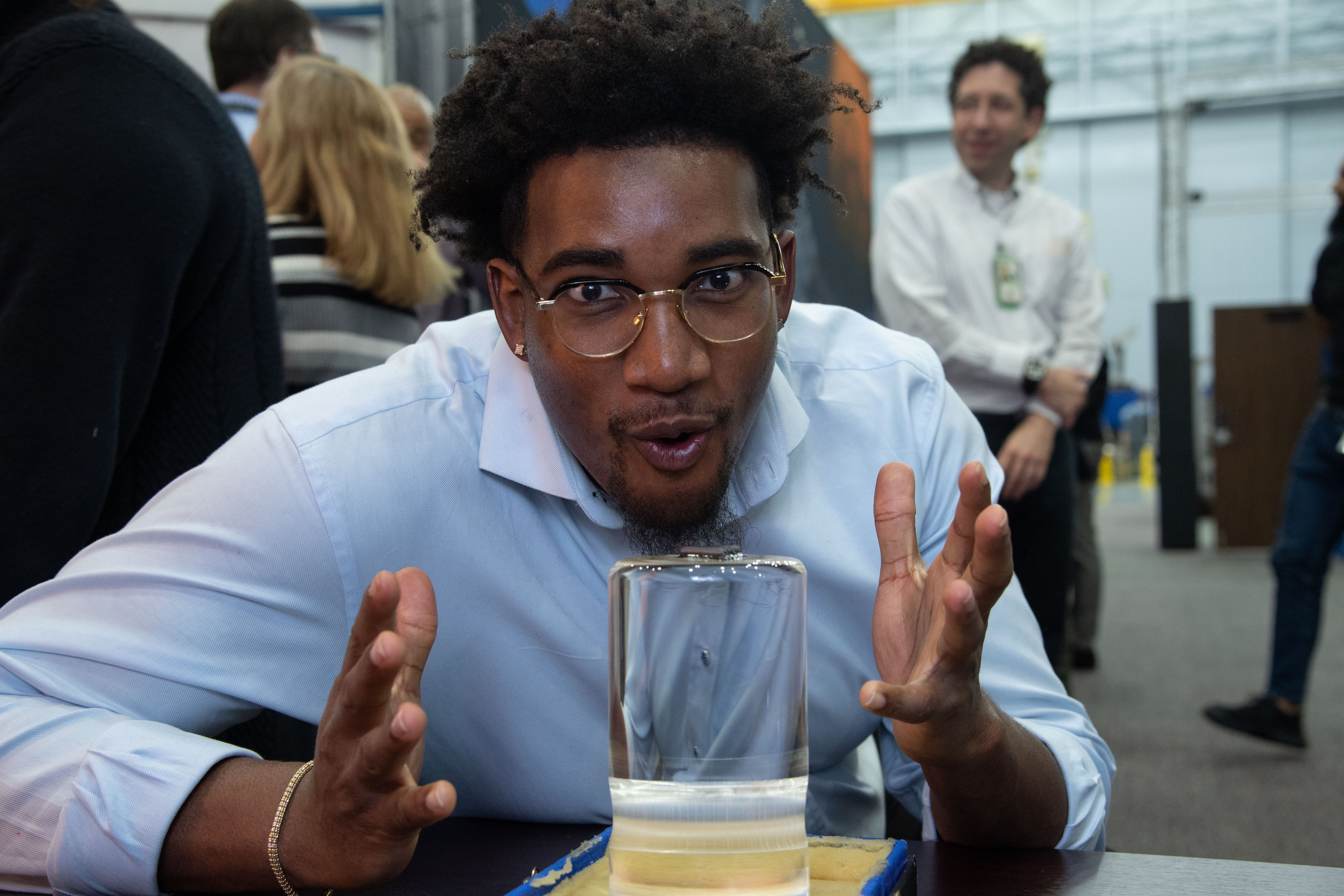 In collaboration with NASA’s Goddard Space Flight Center, NASA’s Johnson Space Center in Houston, Texas hosted the second NASA Commercialization Training Camp on Feb. 12-14 in partnership with the NFL Players Association. Through presentations, tours, panels and one-on-one conversations, the training camp introduced current and former professional football players to NASA technology, explaining how athletes could infuse NASA innovations into an existing business or new startup idea. Credit: NASA/Johnson Space Center/Bill Stafford